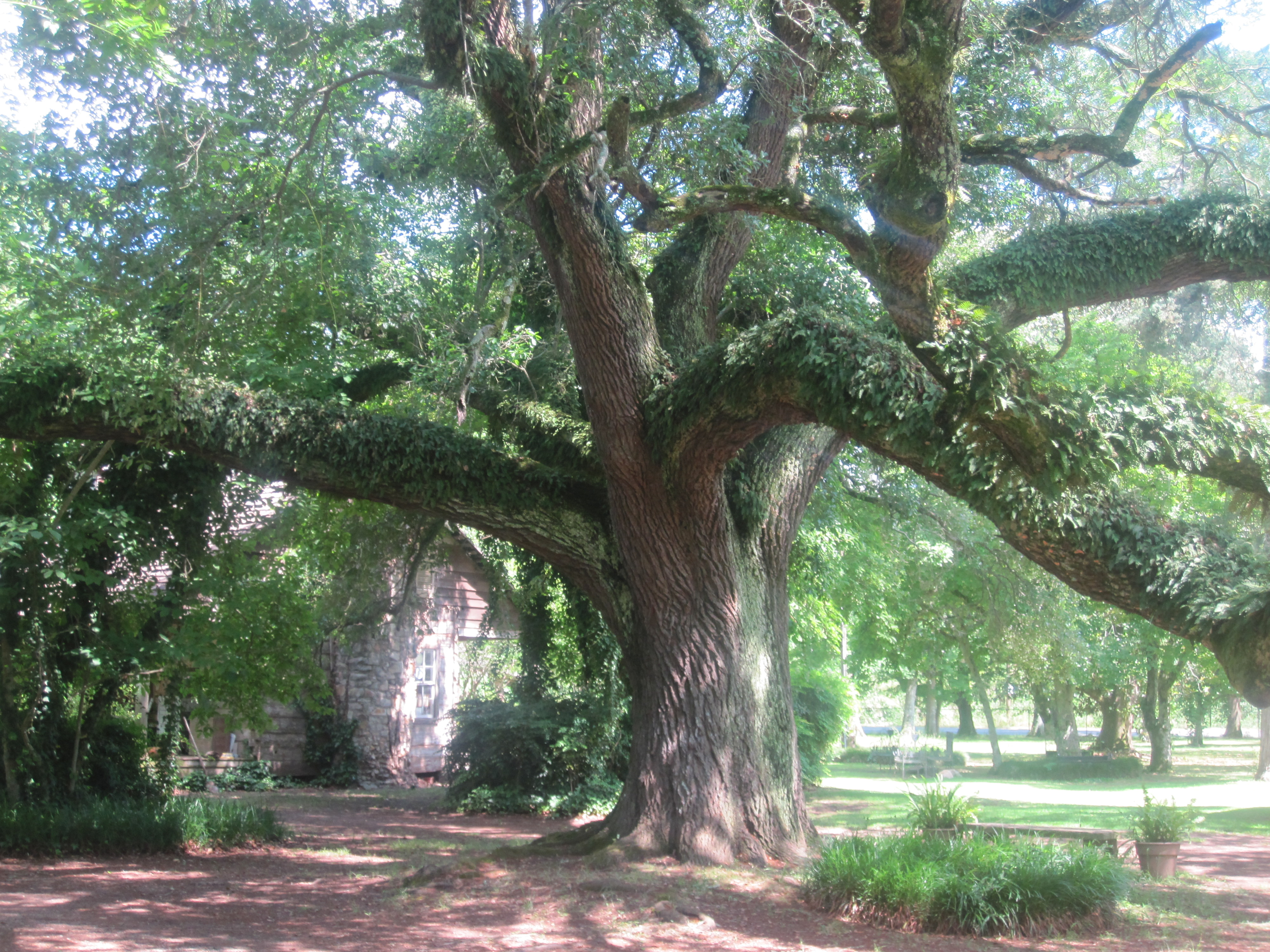 Oak tree at Melrose Plantation — in Natchitoches Parish, Louisiana.